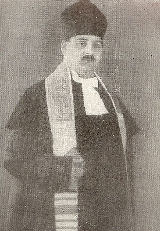 New year picture postcard from Manó Ábrahámson